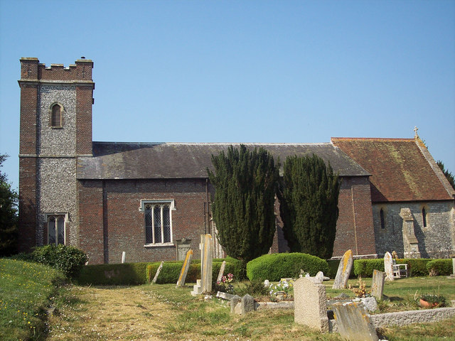 St Peter's Church, West Tytherley Unfortunately the Church was locked.